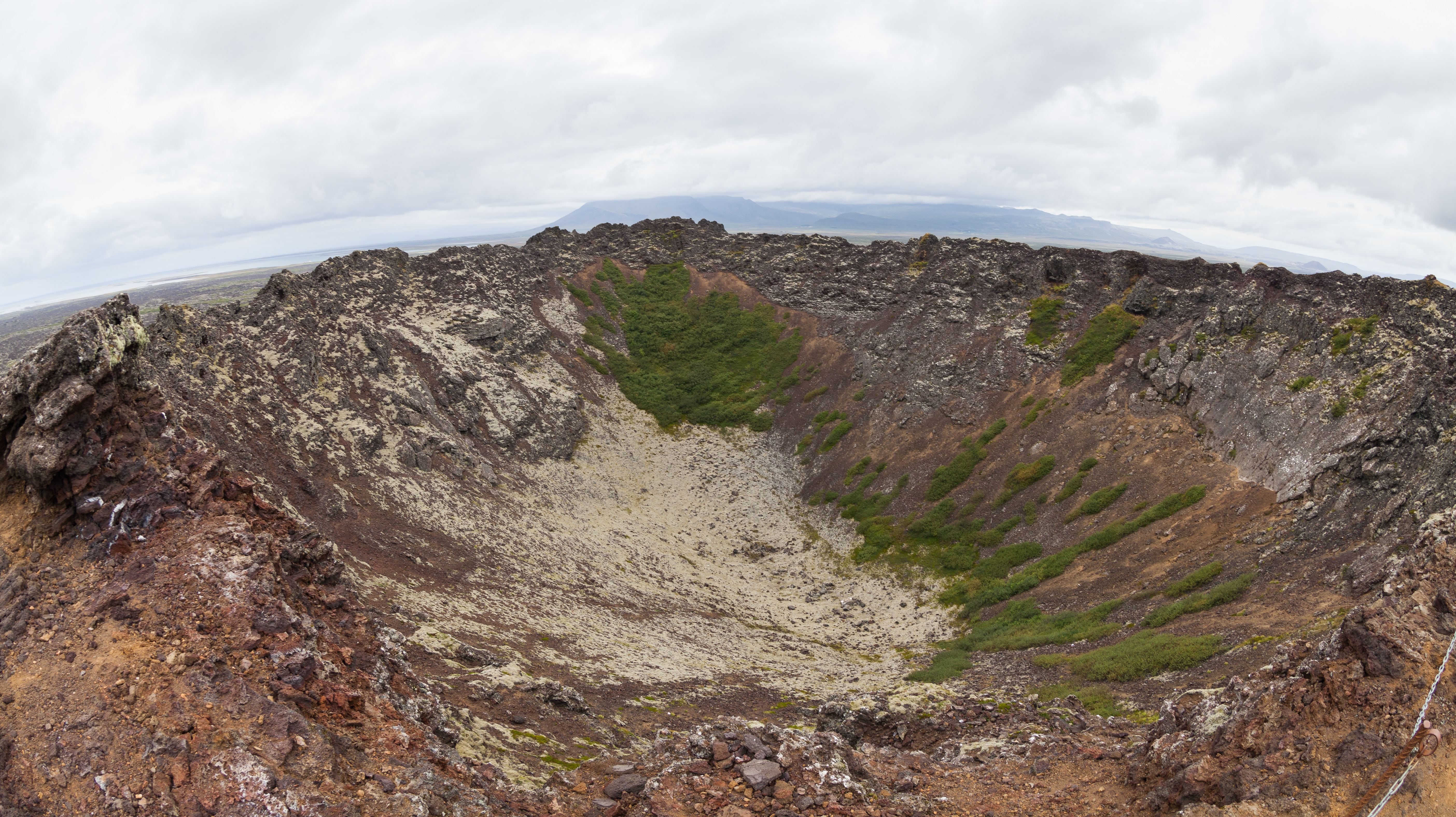 Eldborg crater, Versurland, Iceland